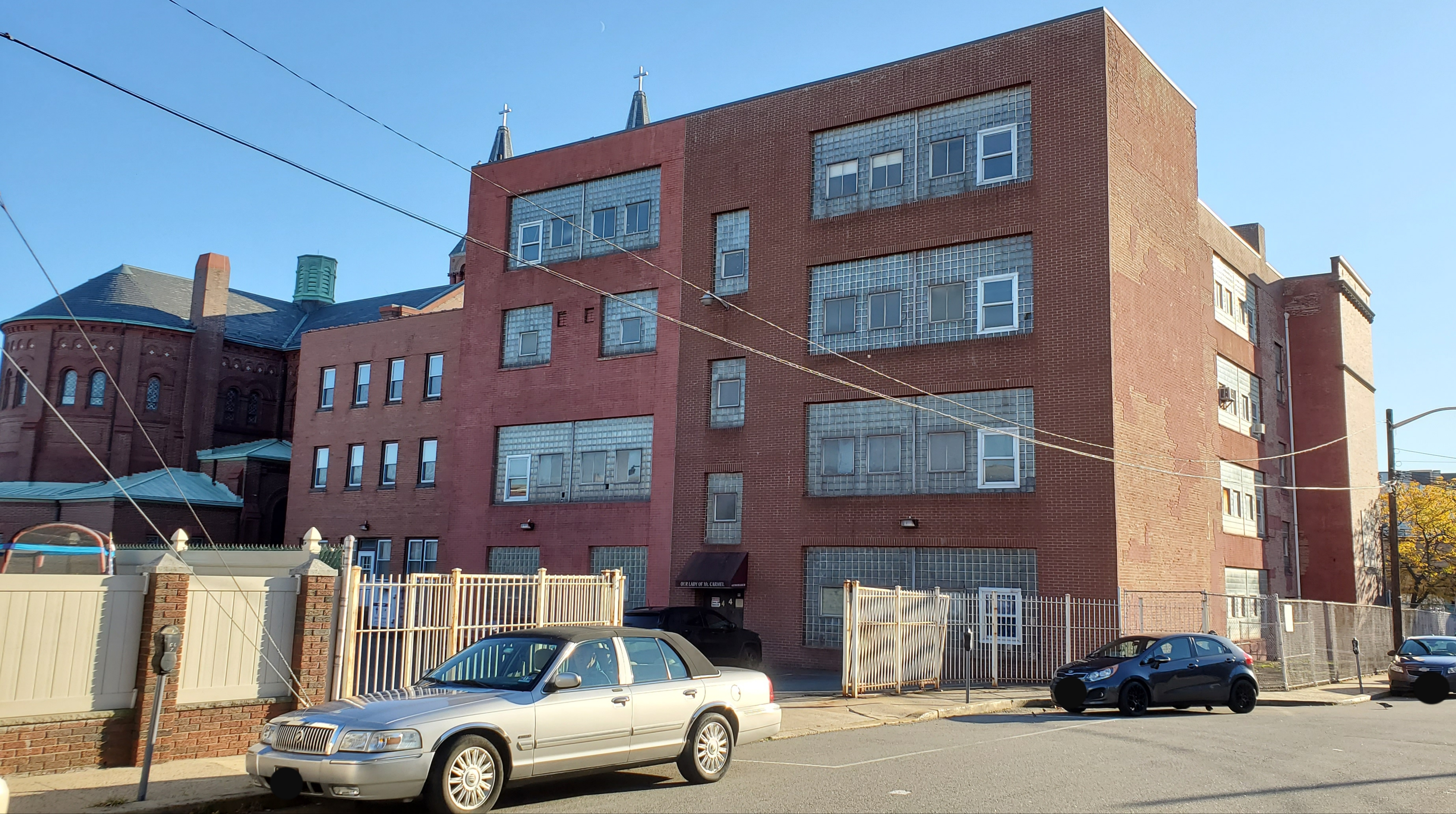 Former Our Lady of Mt. Carmel School Building with the back of the church to the far left.